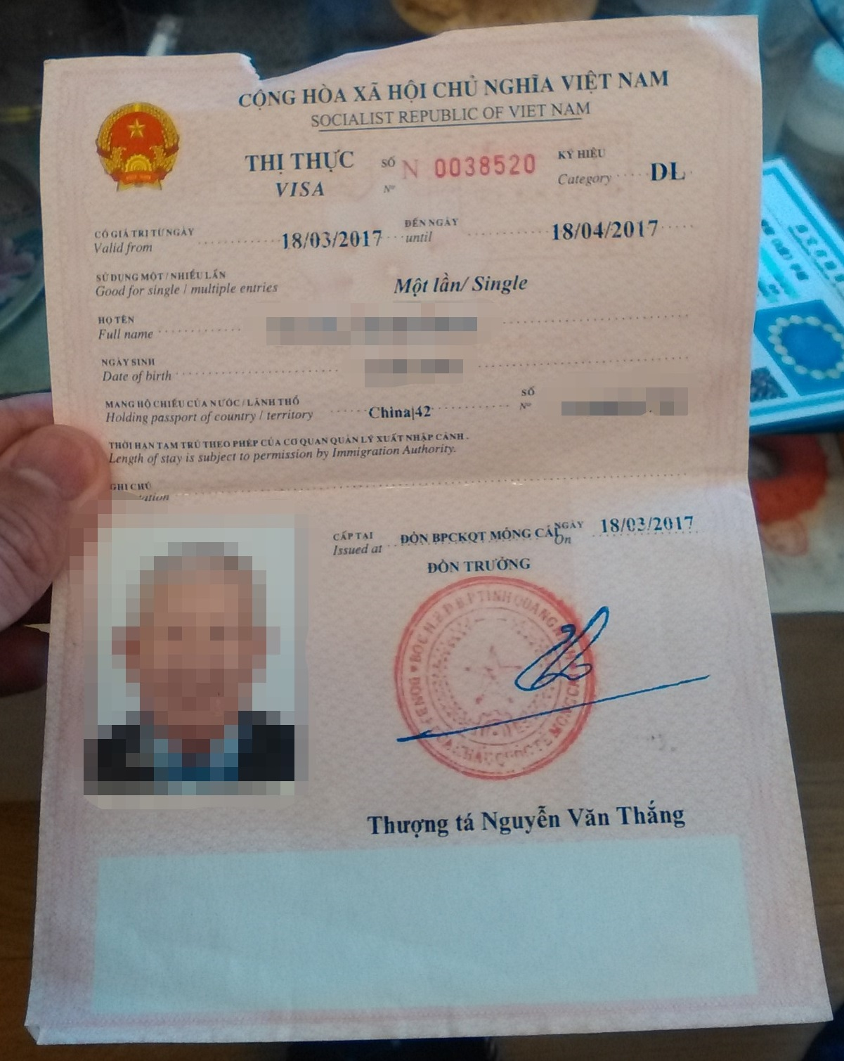 This is my grandfather's Vietnam another paper visa, which issued in March 2017. As a veteran in Vietnam War, he visited Vietnam again in March 2017 for a week, with his comrades. 中文（中国大陆）: 我爷爷的越南另纸签证，于2017年3月签发。作为一名越战老兵，他和他的越战战友们在2017年3月再访越南，为期7天。